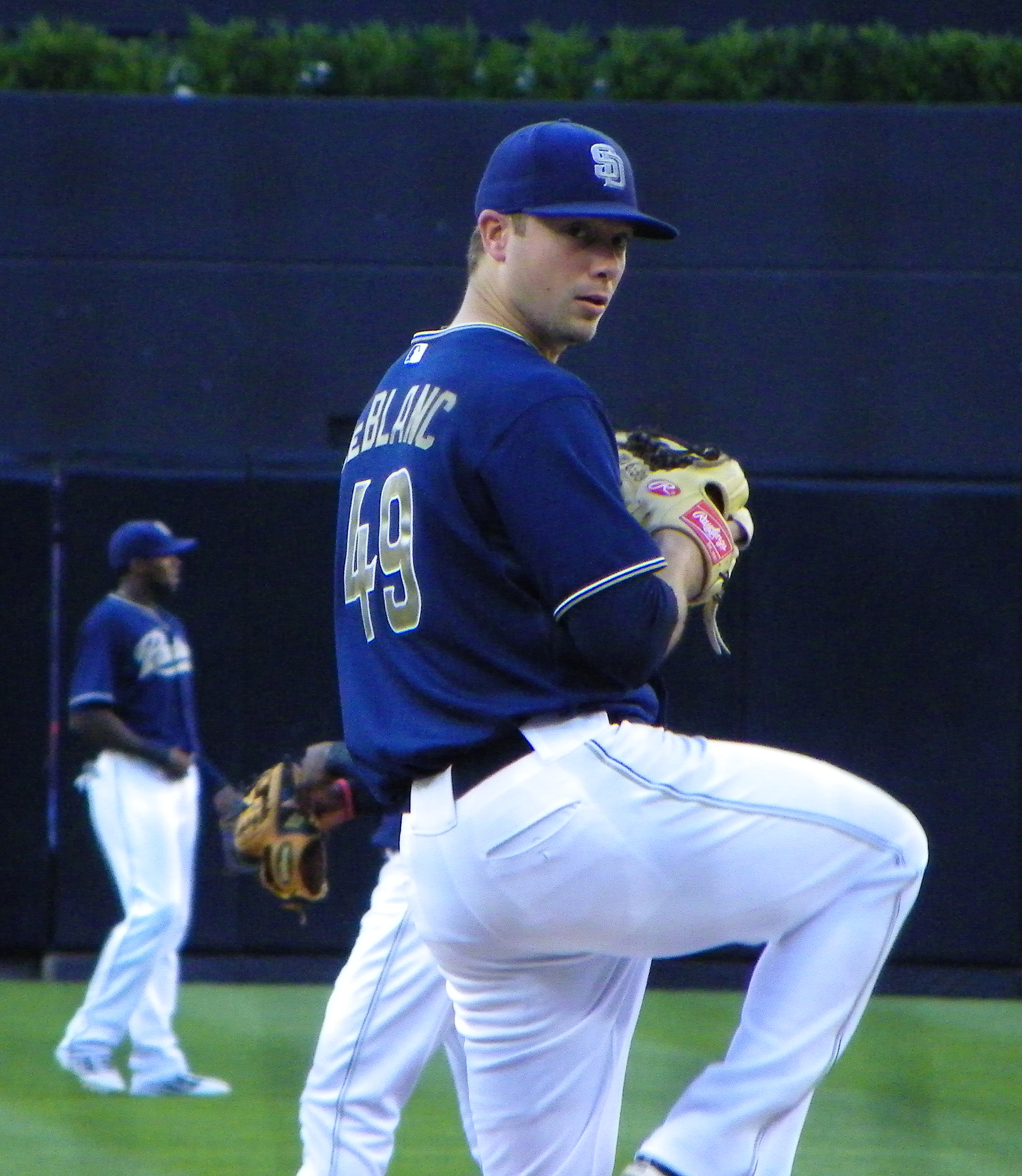 Wade LeBlanc practicing pitching prior to a San Diego Padres game in Petco Park.